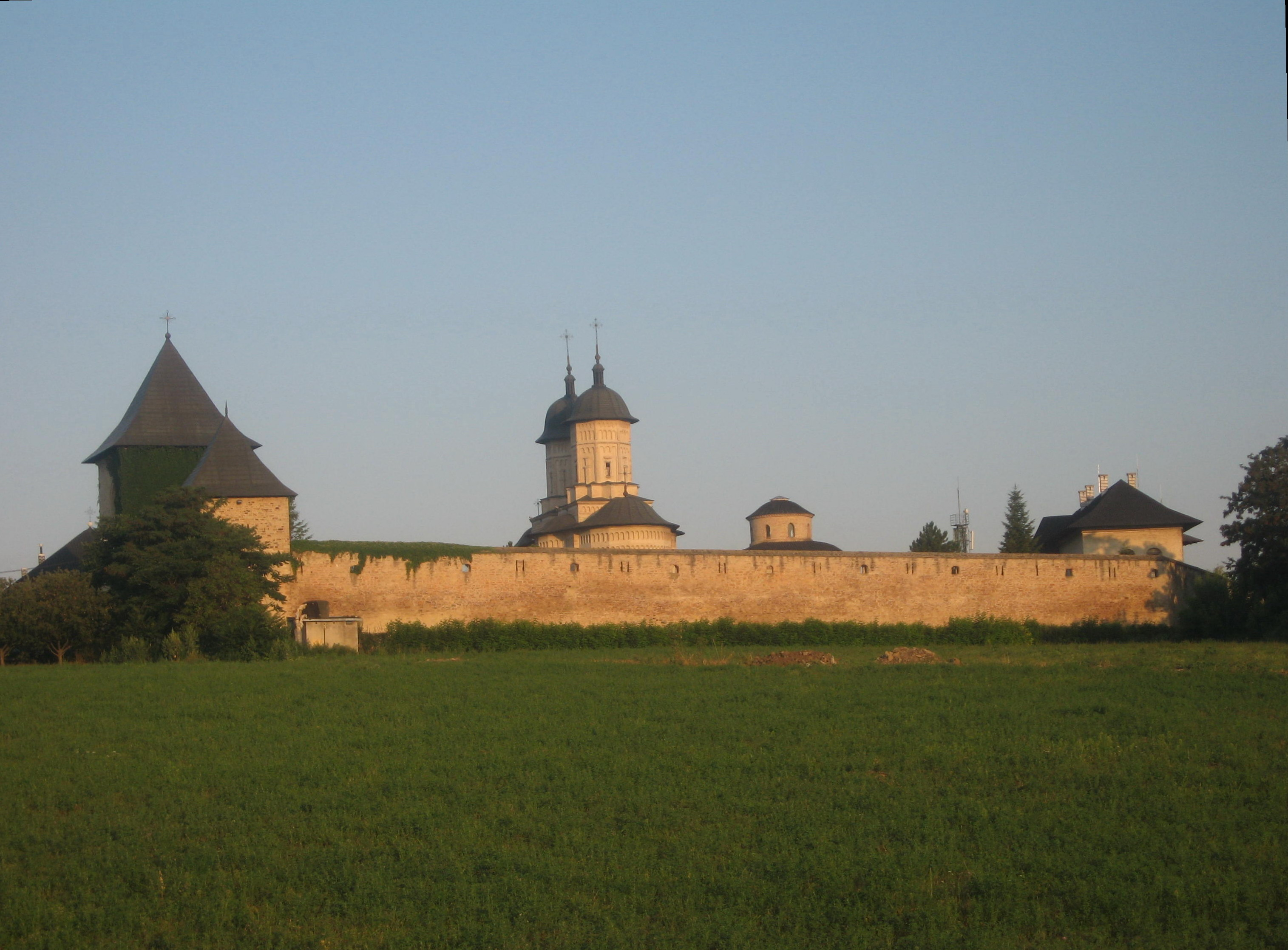 Mănăstirea Cetăţuia